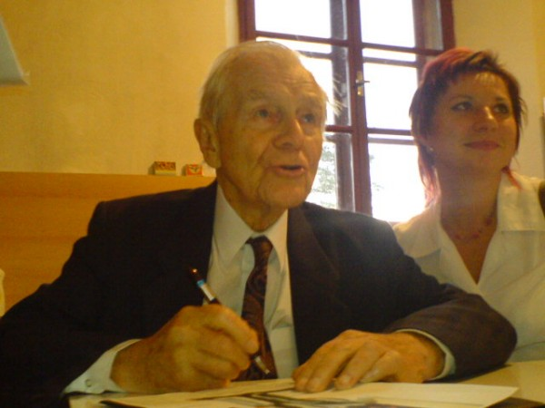 Radovan Lukavský (1919-2008), famous a Czech theatre and film actor, pedagogue and diseur